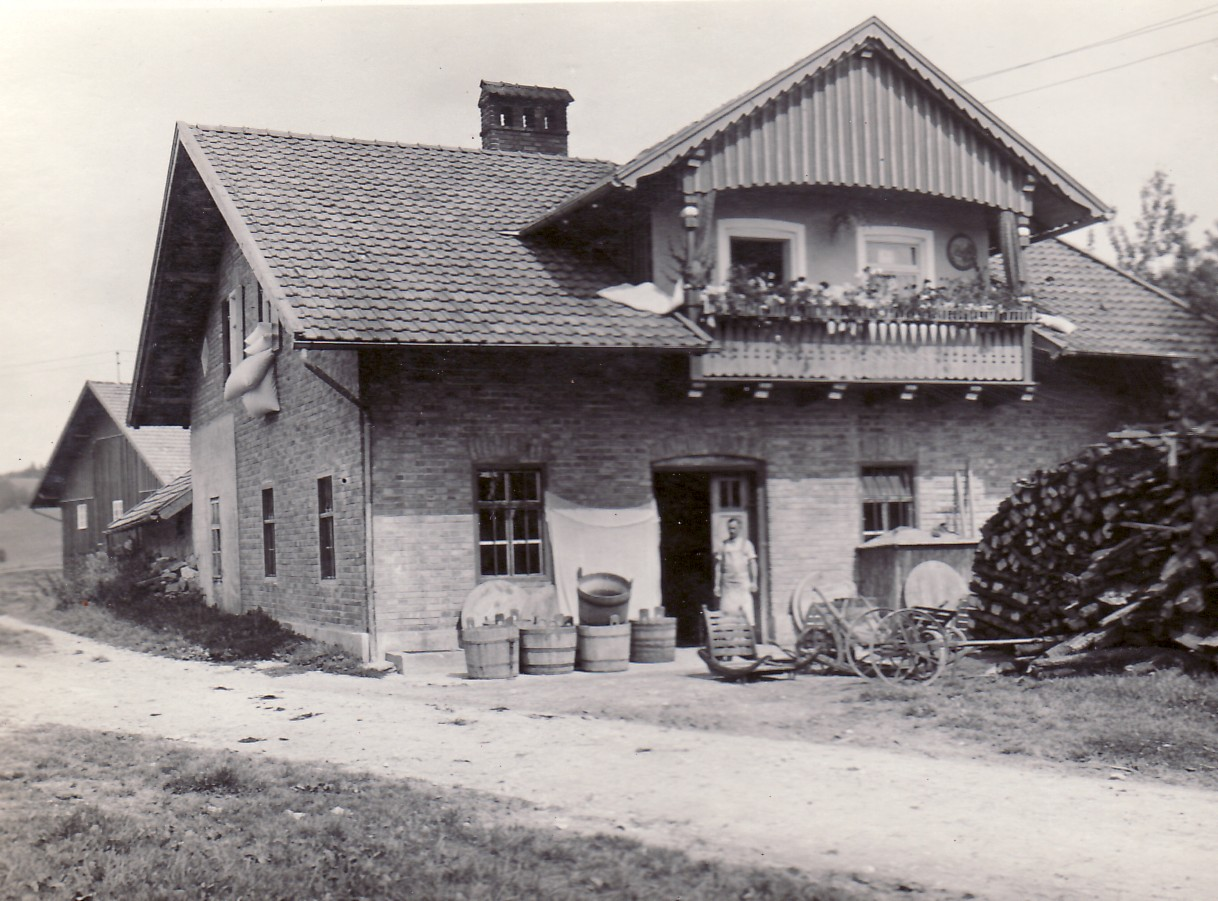 The former dairy in Zell (Ostallgäu) at about 1930